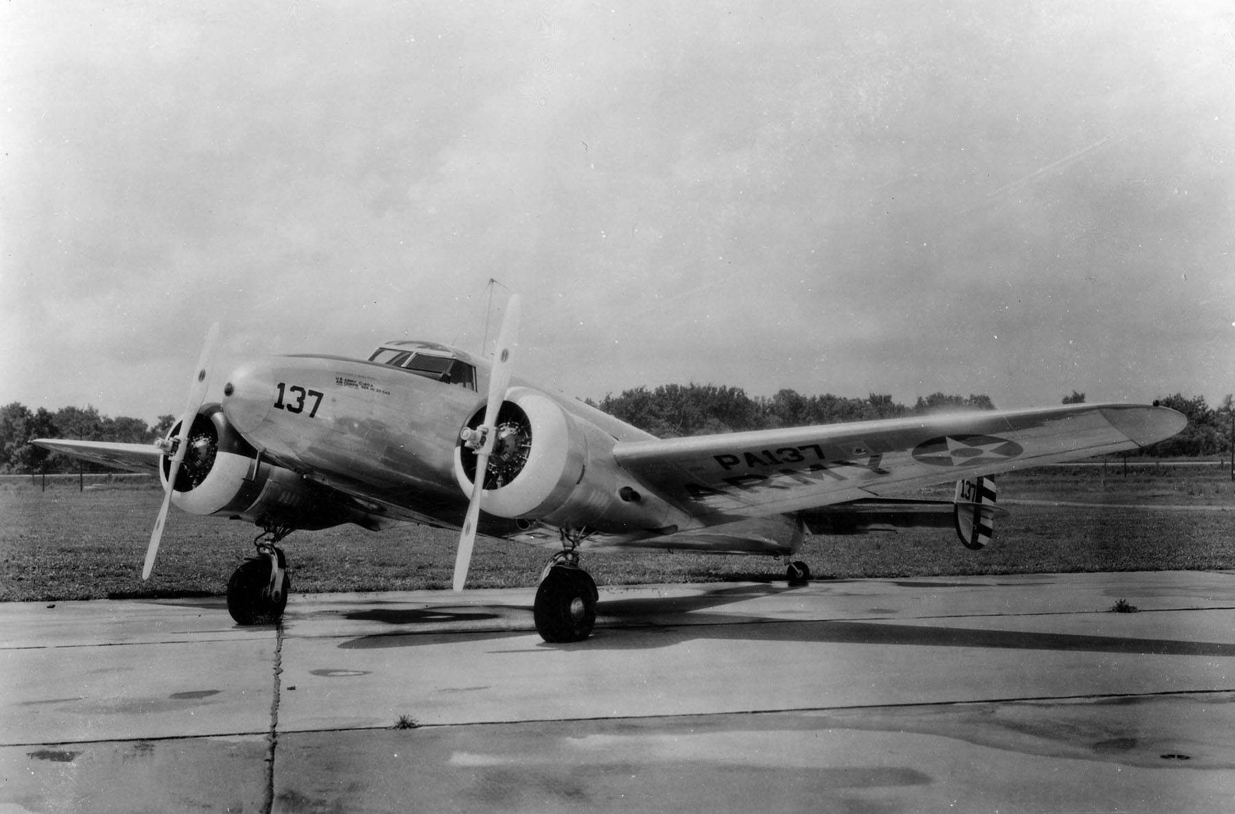 Lockheed C-40A 3/4 front view. (U.S. Air Force photo)